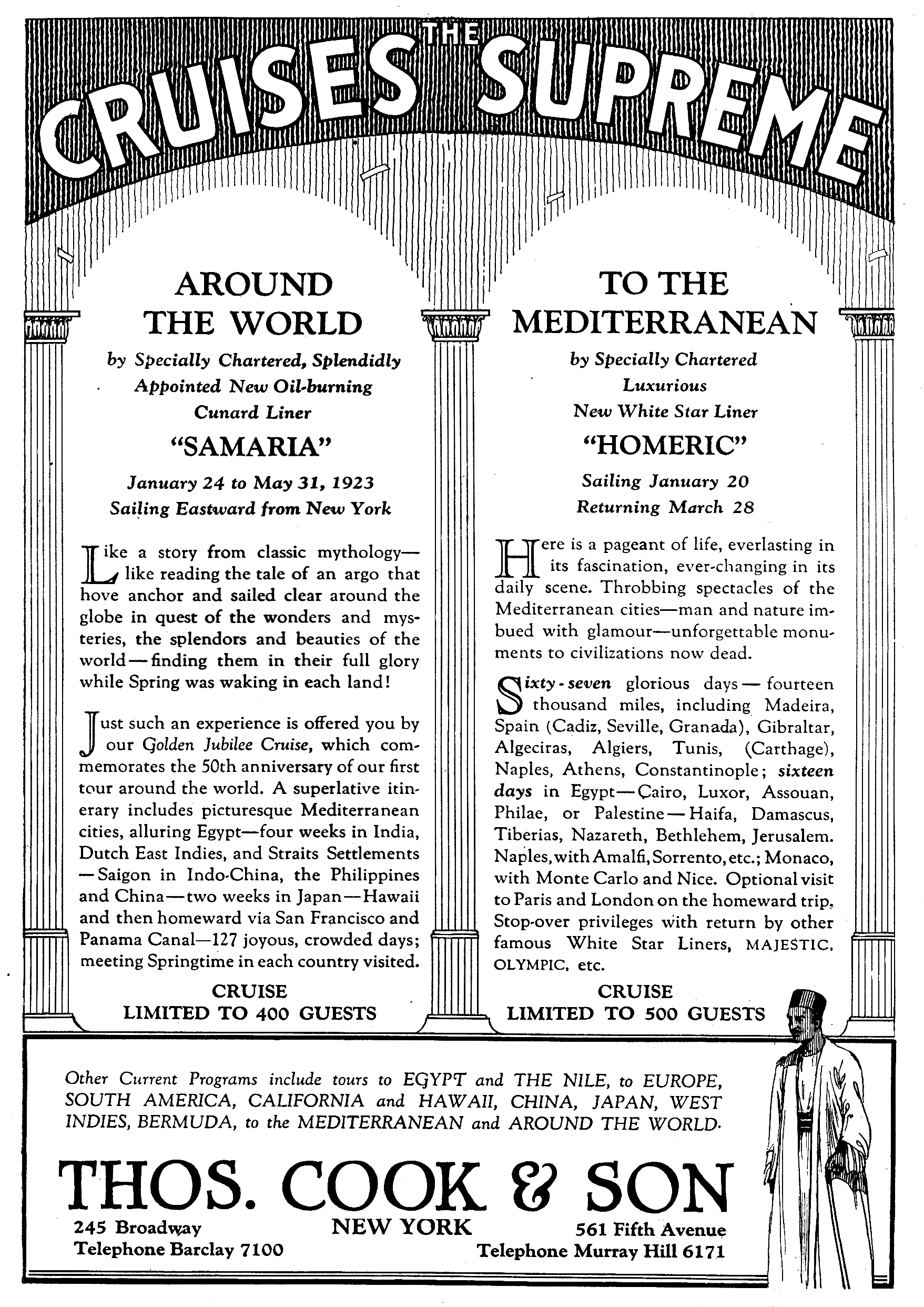 Thos. Cook & Son display advertisement